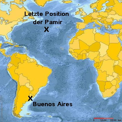 Position in the Atlantic Ocean at which the German school ship Pamir sank in 1957, and her last port of departure Buenos Aires